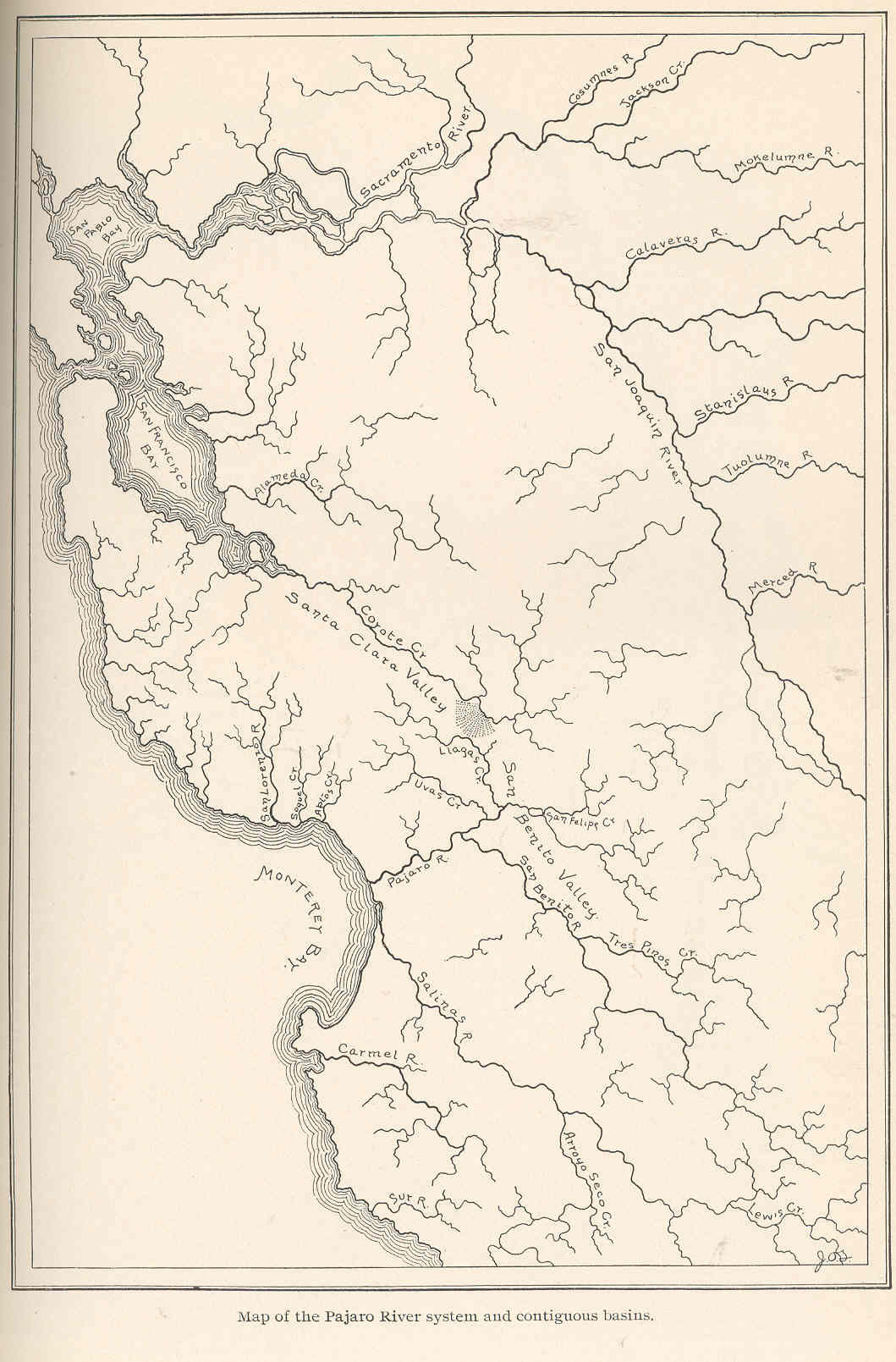 Map of the Pajaro River system and contiguous basins Subject: Pajaro River (California)--Maps, Pajaro River Valley (California)--Maps, Rivers--California Geographic Subject: United States--California--Pajaro River Valleyu Tag: Limnology